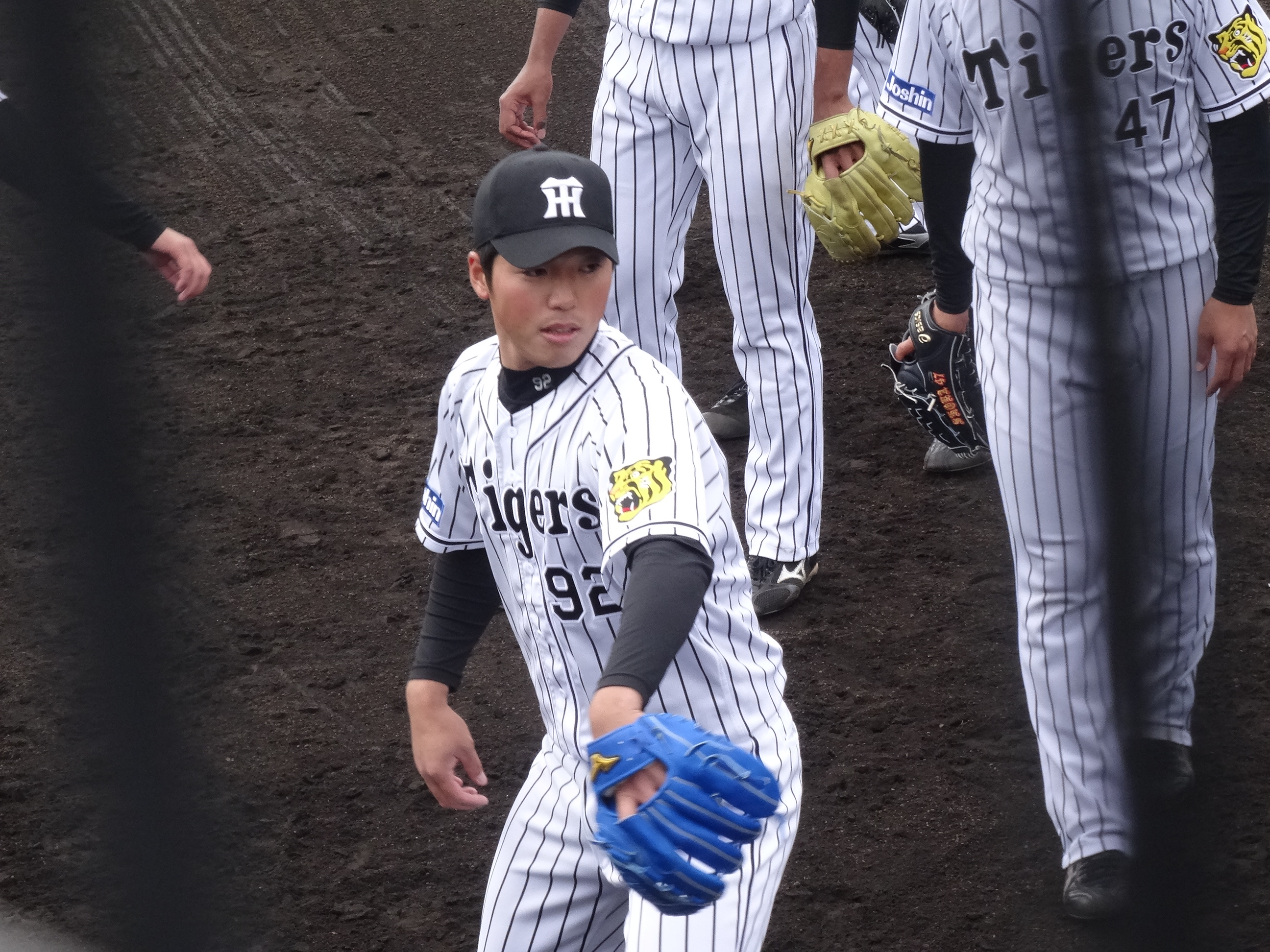 Kazuo Ito, pitcher of the Hanshin Tigers, at Hanshin Naruohama Baseball Ground